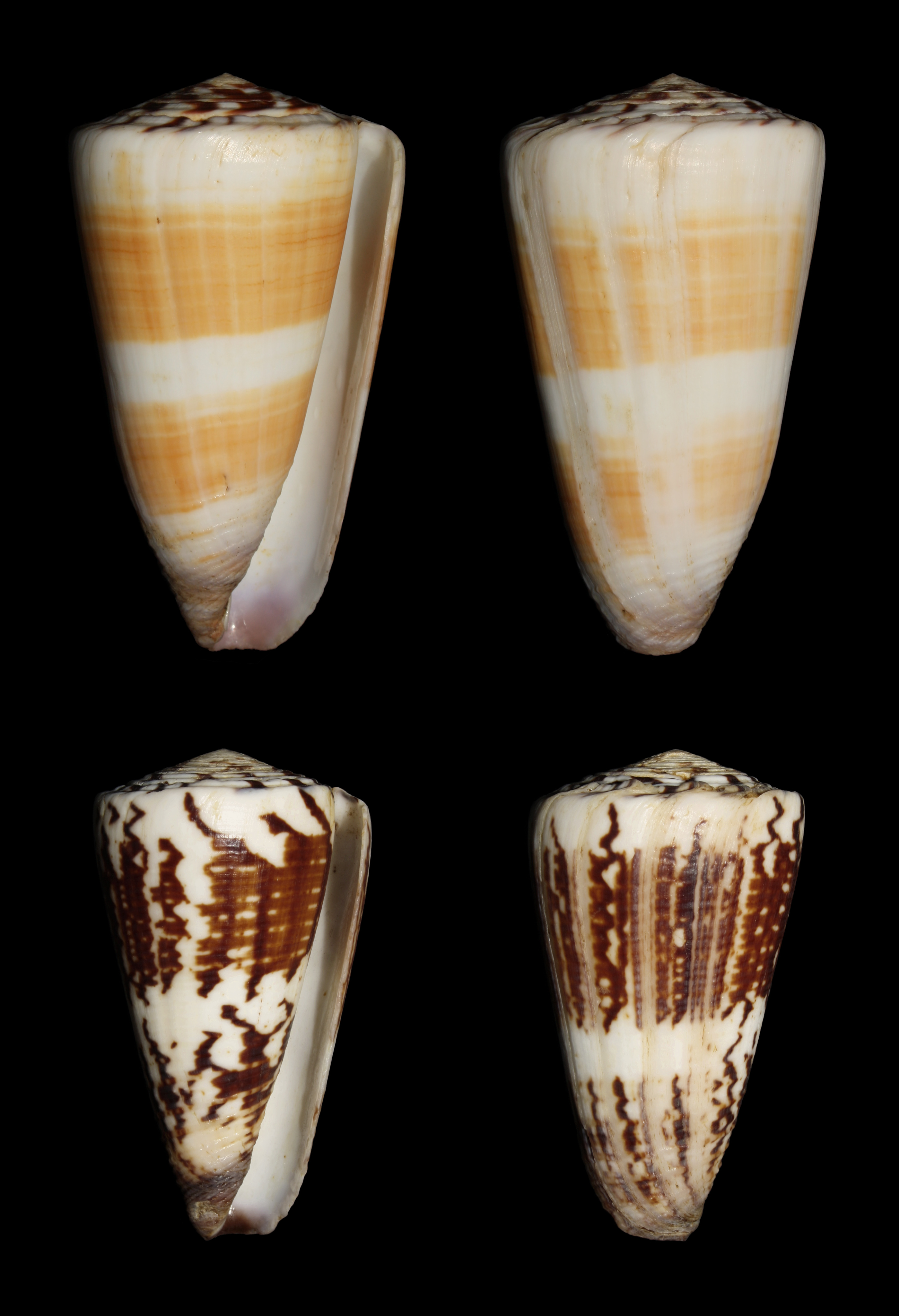 1. Conus planorbis planorbis Born' 1778. 64 mm. Locality unknown (Indo-W.Pacific). 2. Conus planorbis vitulinus Hwass in Bruguière' 1792. 54 mm. Locality unknown (Indo-W.Pacific).